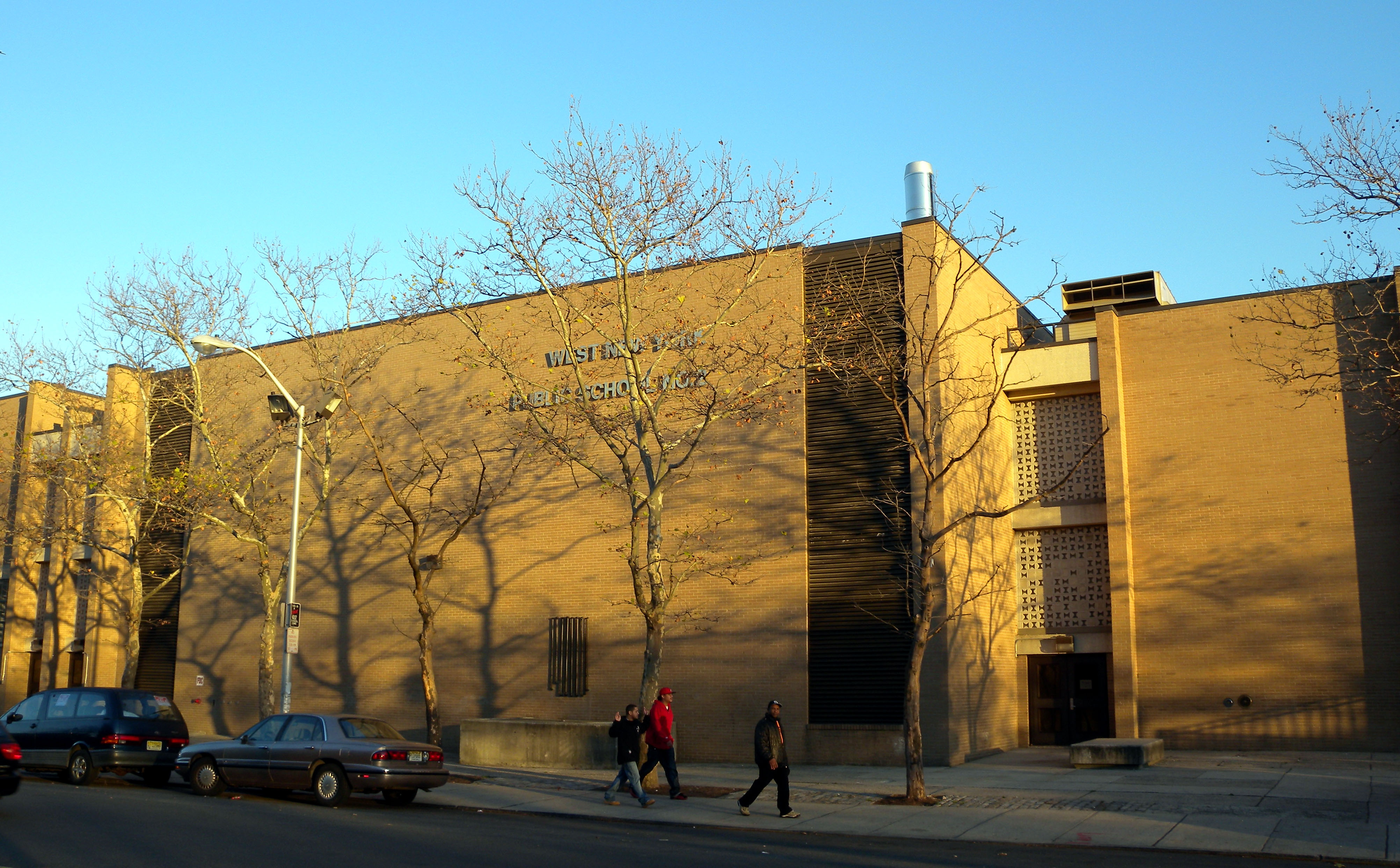 Looking east across Broadway at PS 2 of WNY on a sunny late afternoon.